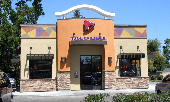 A Taco Bell fast food restaurant on El Camino Real (California) in Sunnyvale, California. Photographed by user Coolcaesar on October 16, en:2005.